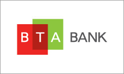 BTA logo en